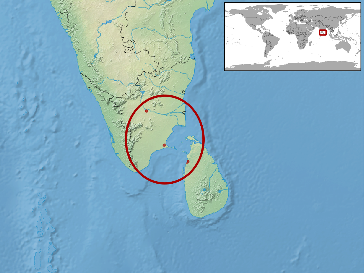 geographic distribution of Hemidactylus scabriceps (Native: India; Sri Lanka)